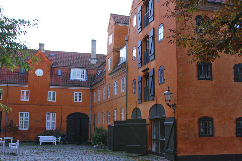 Irgens Gård at 44 Strandgade in the Christianshavn district of Copenhagen, Denmark